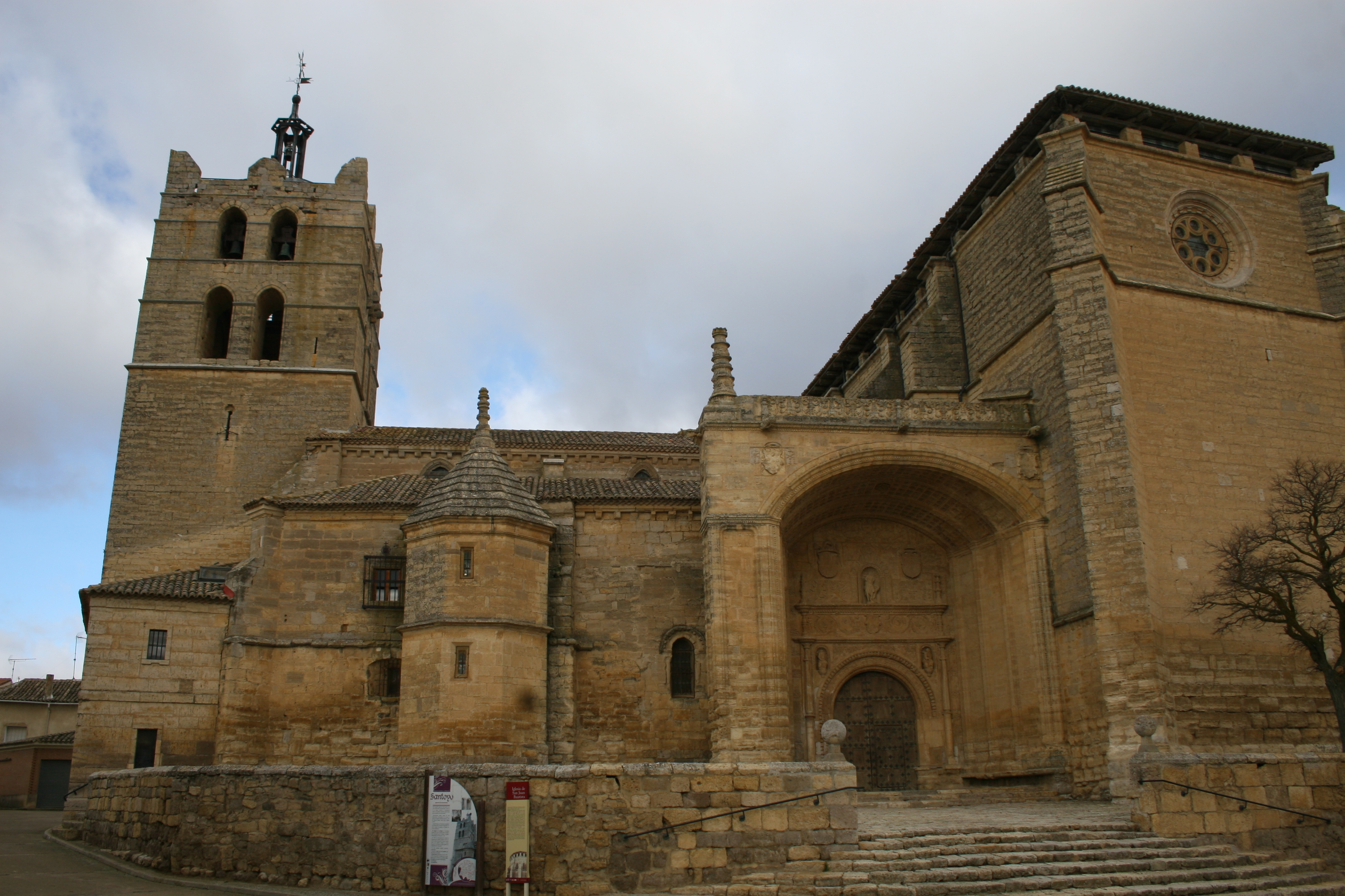 Saint John Baptist Church in Santoyo (Palencia - Spain)